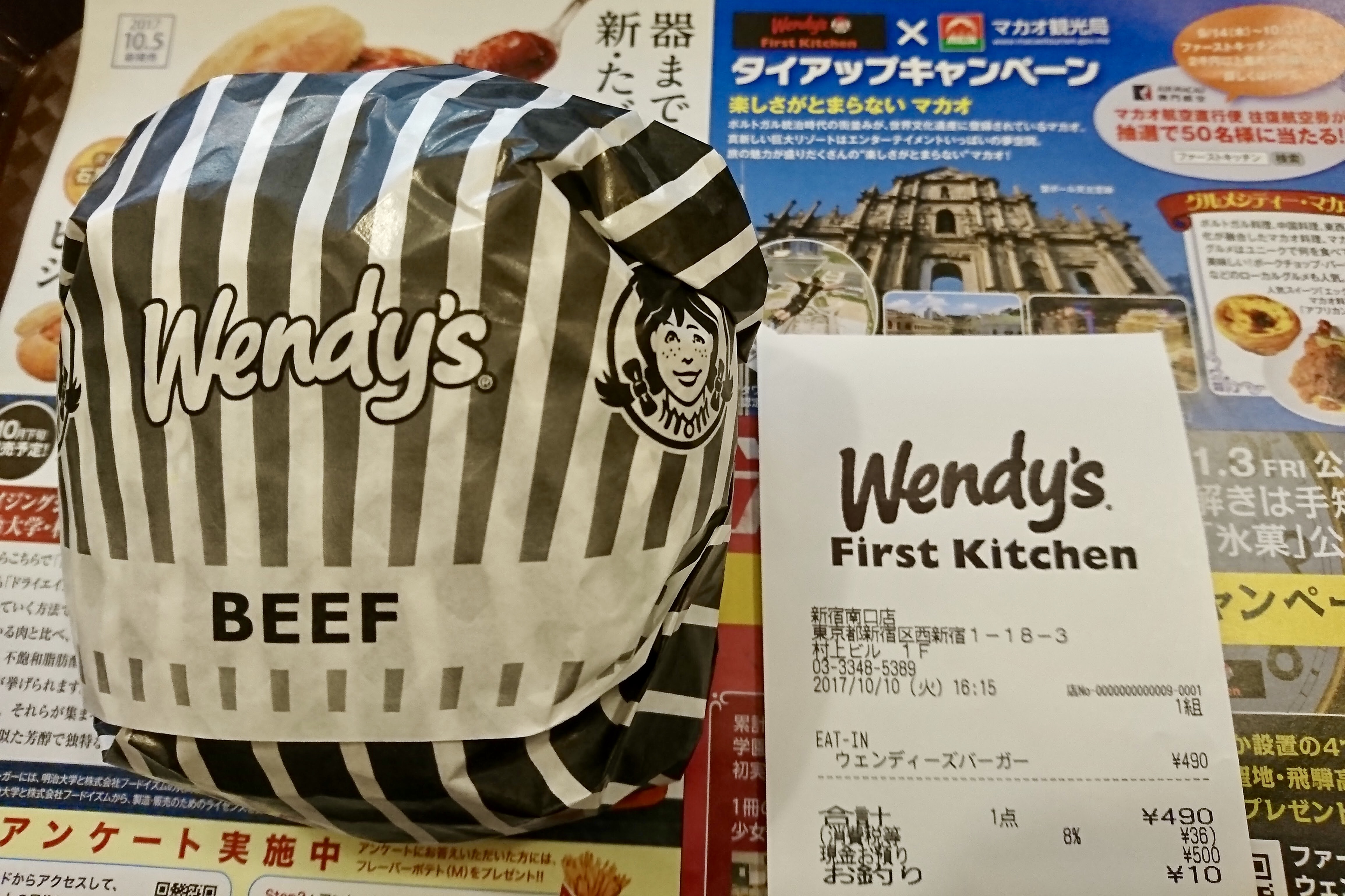 Wendy's(First Kitchen)Hamburger and receipt